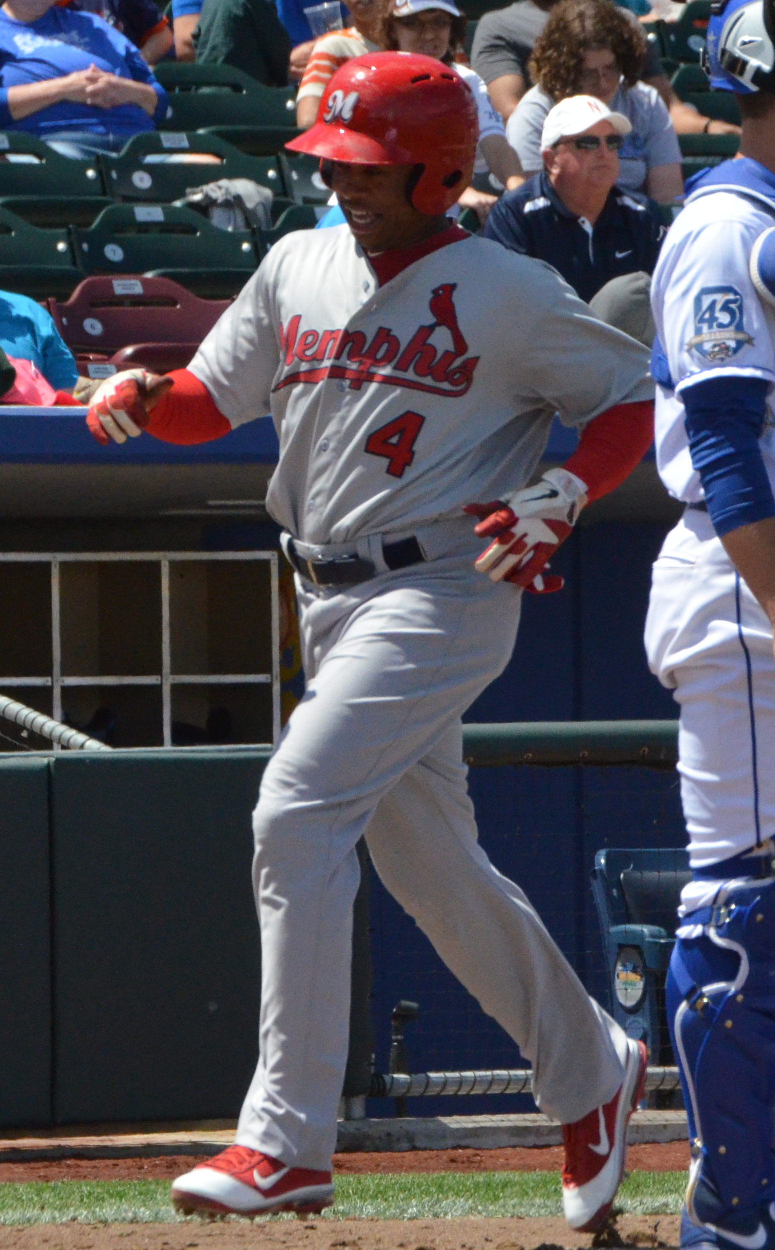 Adron Chambers